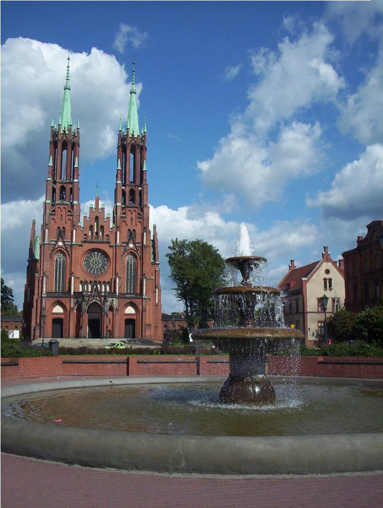 John Paul II Square, Żyrardów, Poland.